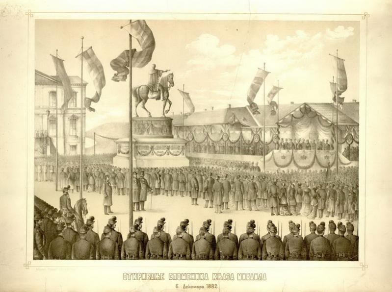 Celebration in honour of Prince Mihailo Monument